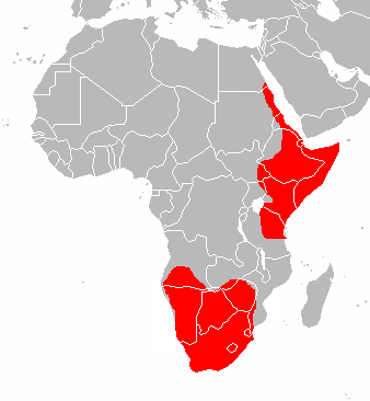 Range map of the Aardwolf (Proteles cristata)